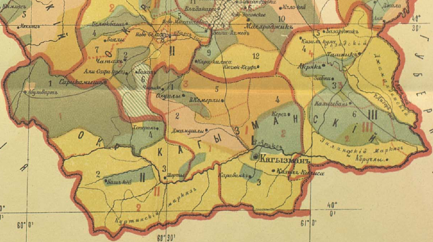 Ethnographic map of the Kaghizman OkrugAzərbaycanca: Kağızman dairəsinin etnoqrafik xəritəsi